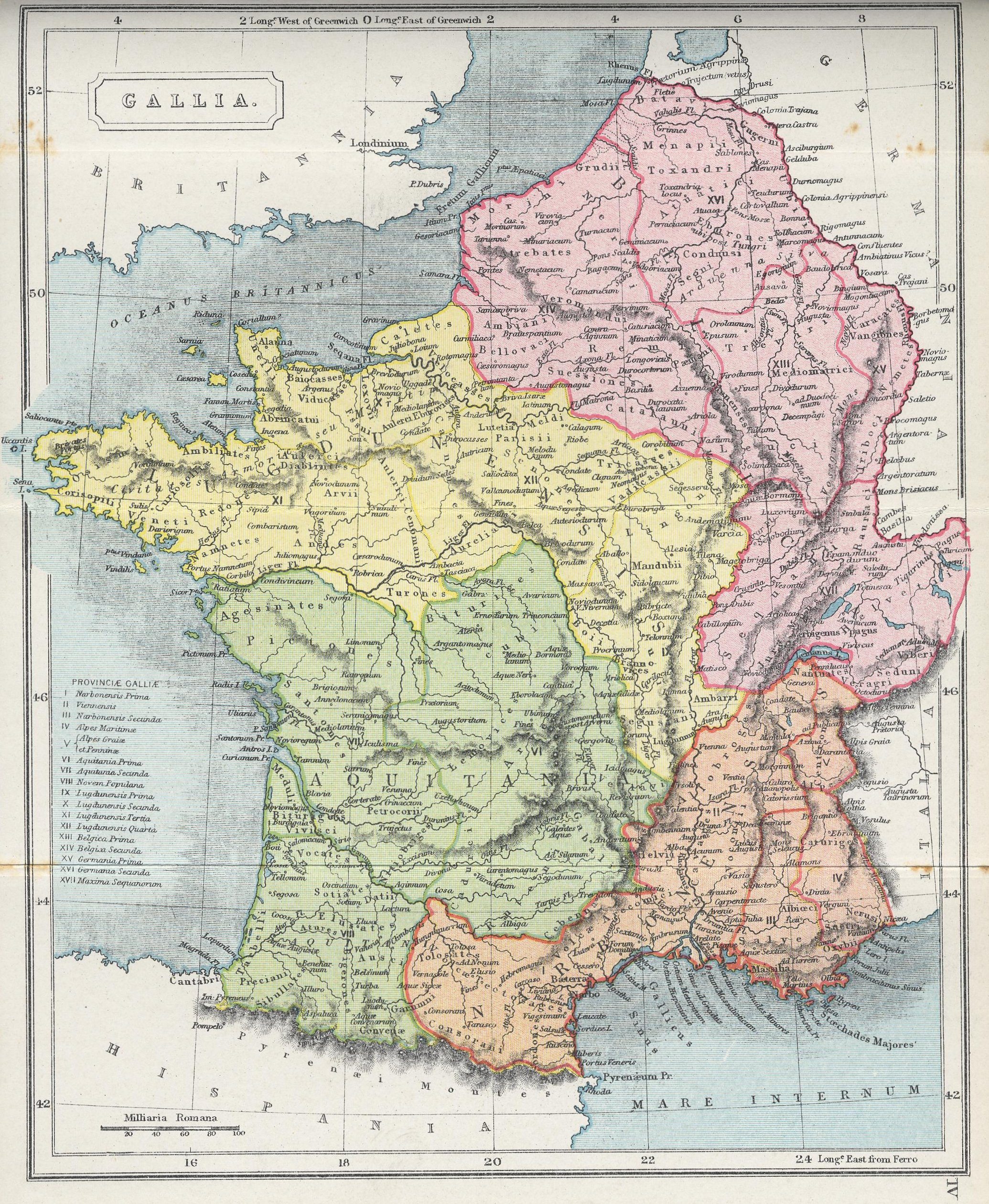 The Atlas of Ancient and Classical Geography by Samuel Butler